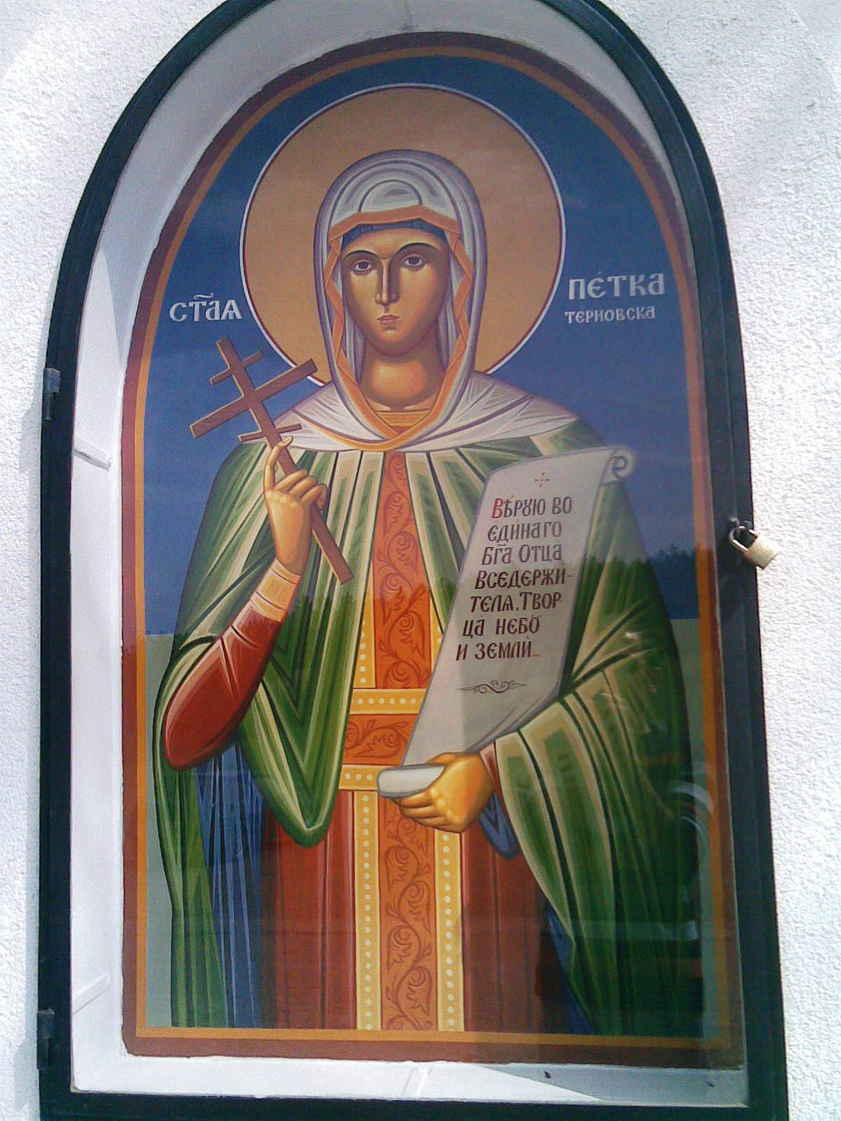 Mural painting of St. Petka. Klisura Monastery in Sofia Eparchy, Bulgaria